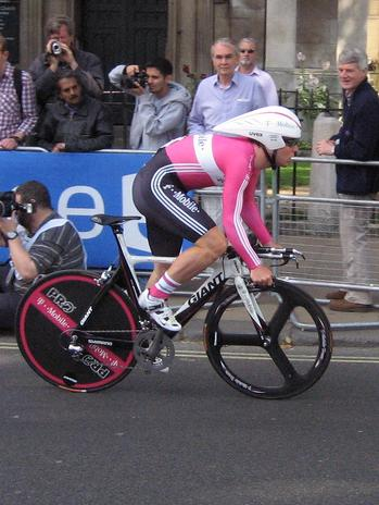 Mark Cavendish in the 2007 Tour de France prologue.